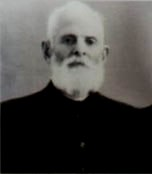 Giorgi Shiolashvili the father of Catholicos-Patriarch of All Georgia Ilia